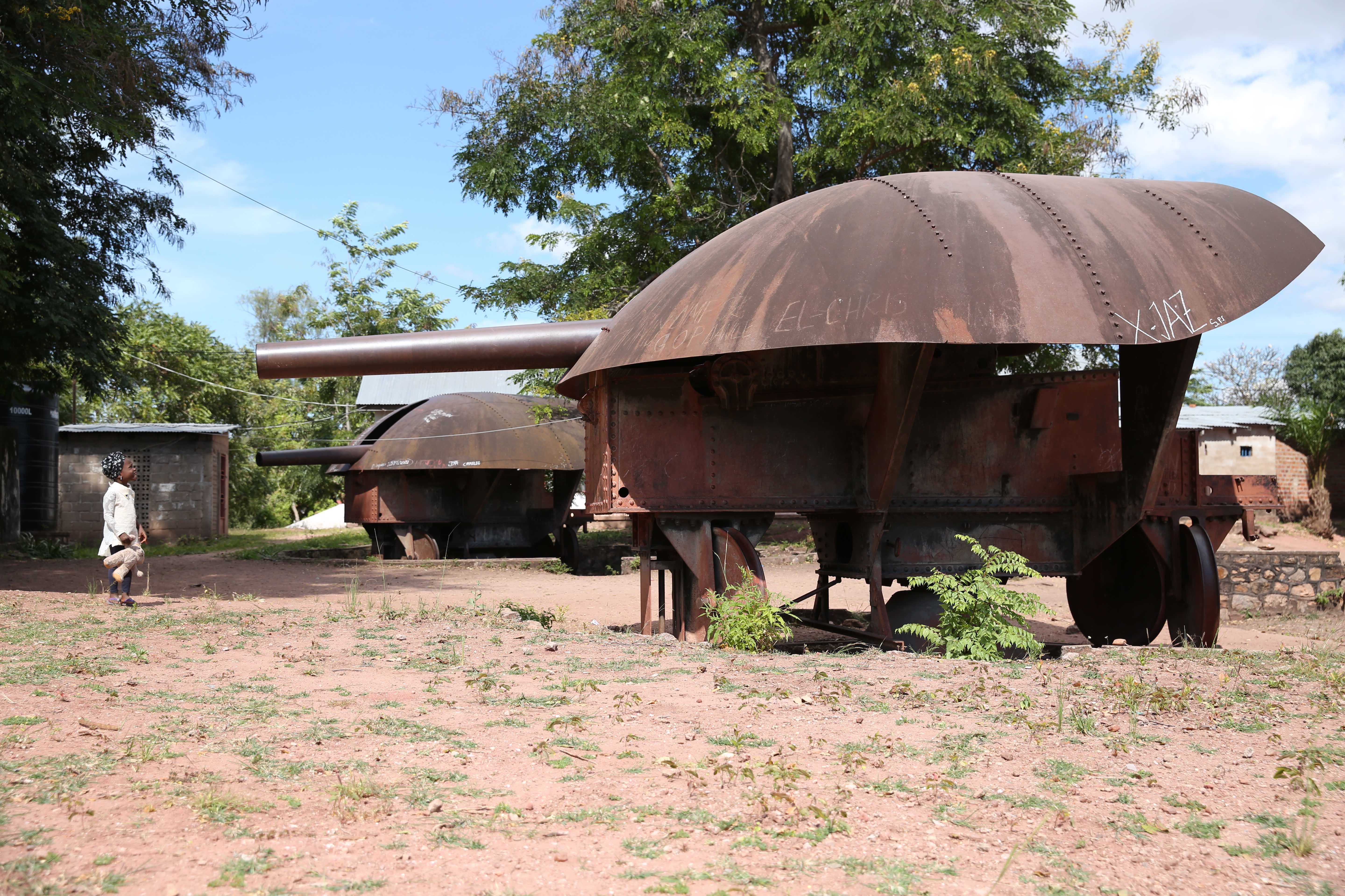 Kalemie, Province du Tanganyika, DR Congo: A young girl questions History looking at a Krupp cannon that was used by Belgium to defeat Germany during the Lake Tanganyika battle of World War I. Photo MONUSCO/Abel Kavanagh